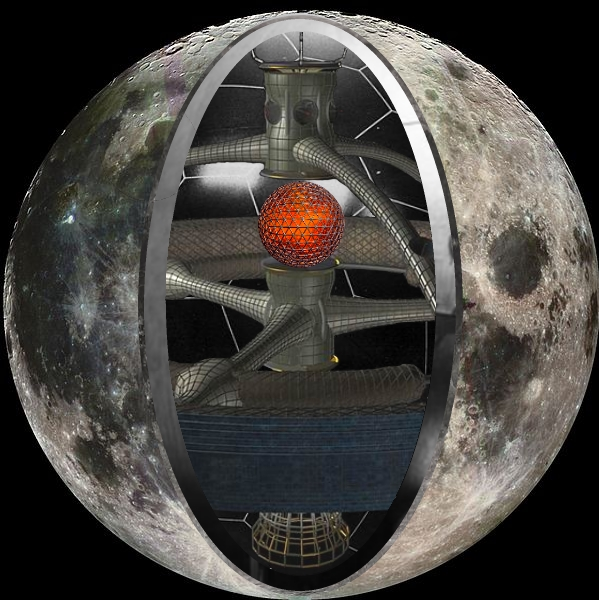 Cutaway illustration of an alien base in a hollow Moon